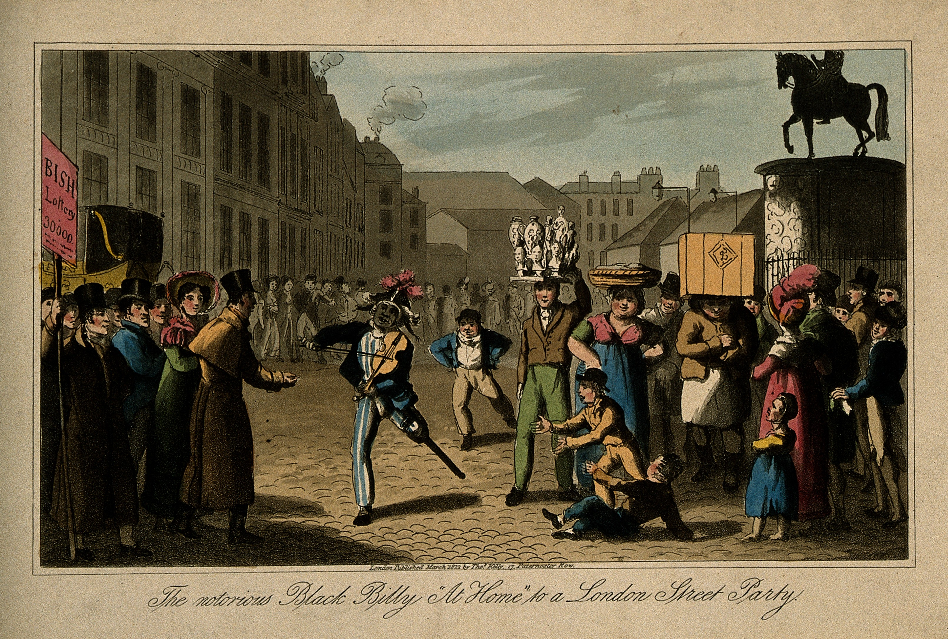 Billy Waters, a one legged busker, in a crowded London street. Coloured aquatint, 1822. Iconographic Collections Keywords: portrait prints; Billy Waters; waters, billy; street entertainers; beggars; aquatints